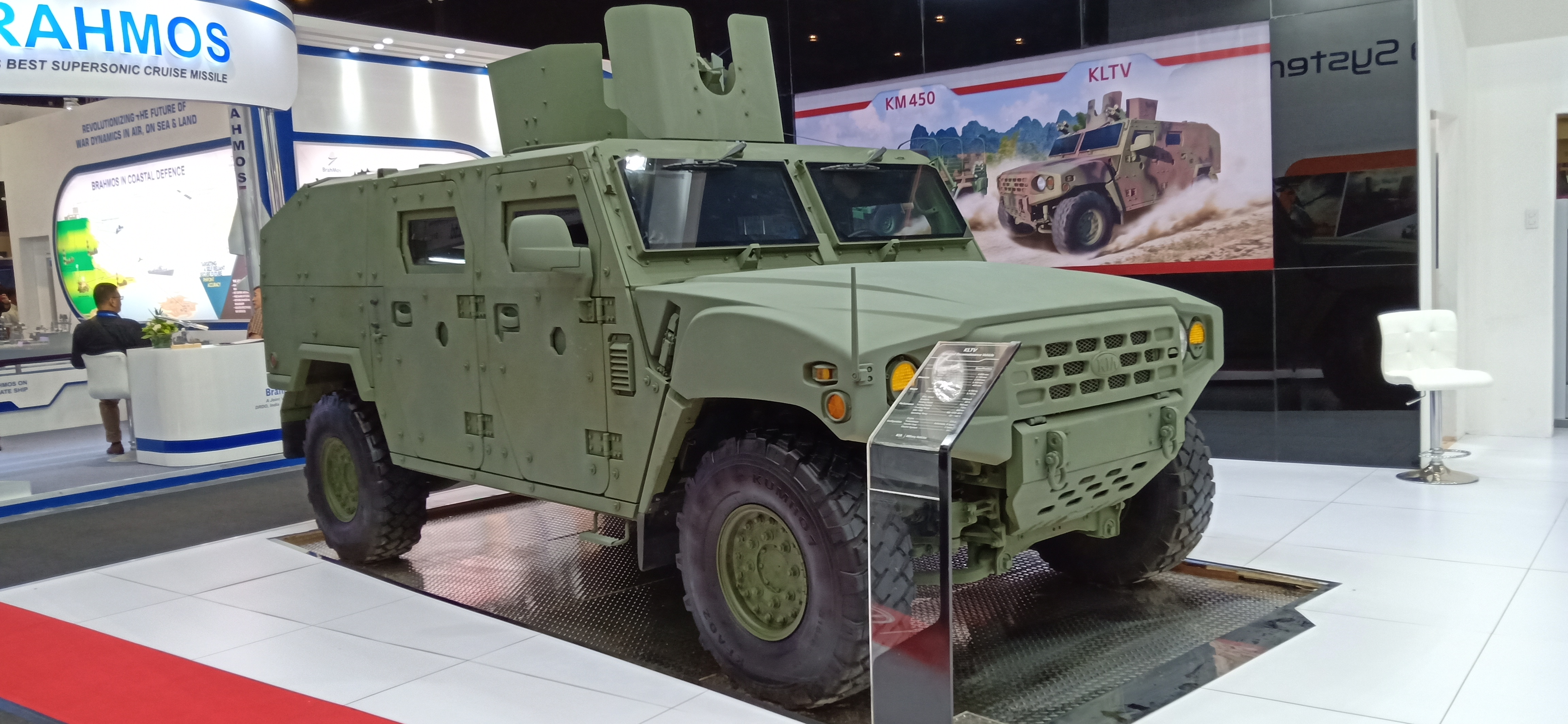 A Kia Light Tactical Vehicle (KLTV) made by the South Korean company Kia Motors. Photo taken during the 2018 Asian Defence and Security (ADAS) Trade Show at the World Trade Center in Pasay, Metro Manila.